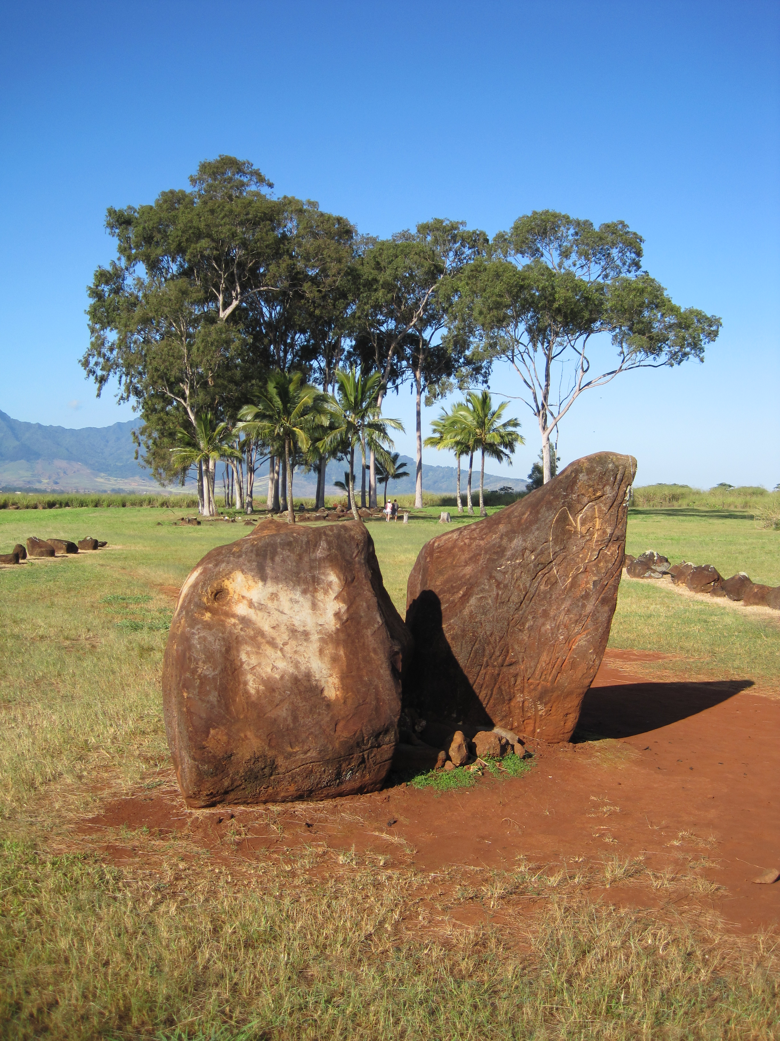 View from entrance stones to central stones at Kukaniloko State Park, on National Register of Historic Places